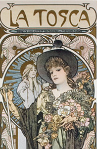 Detail of a poster for Sardou's play La Tosca, depicting Sarah Bernhardt in the title role.